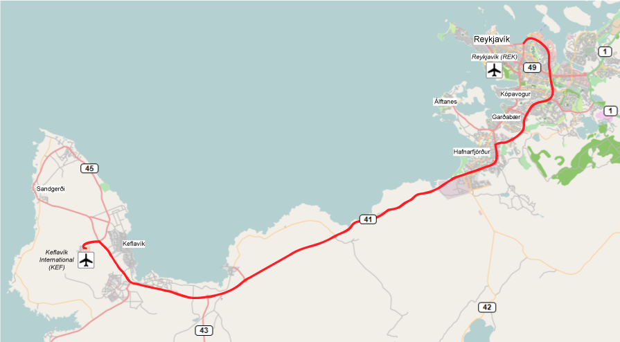 A map of Route 41 in Iceland, also known as "Reykjanesbraut", marked with a thick red line. This map may be incomplete, and may contain errors. Don't rely solely on it for navigation.